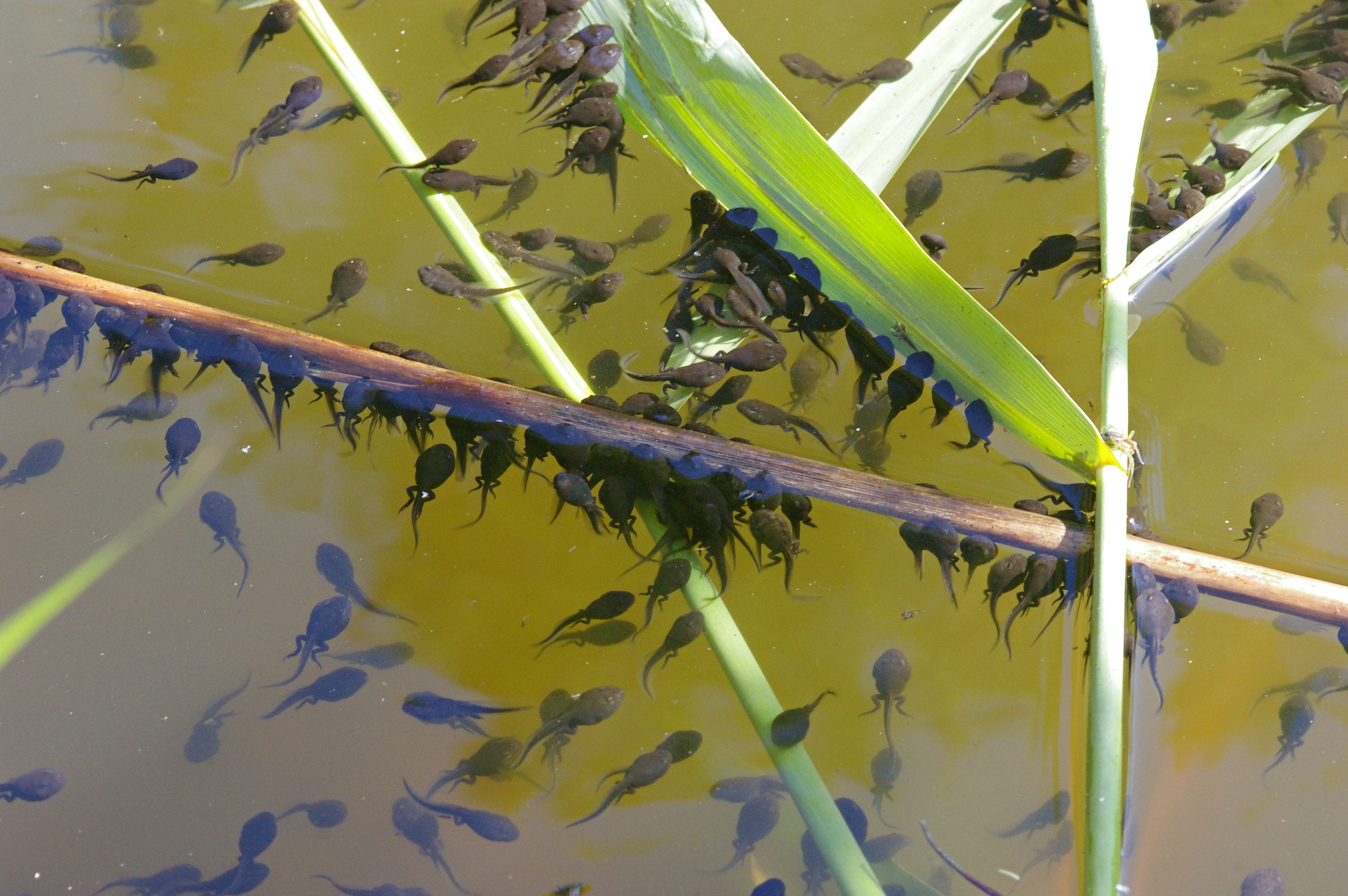 Tadpoles of the Common Toad (Bufo bufo) often behave gregarious. These ones already have developed hind legs.